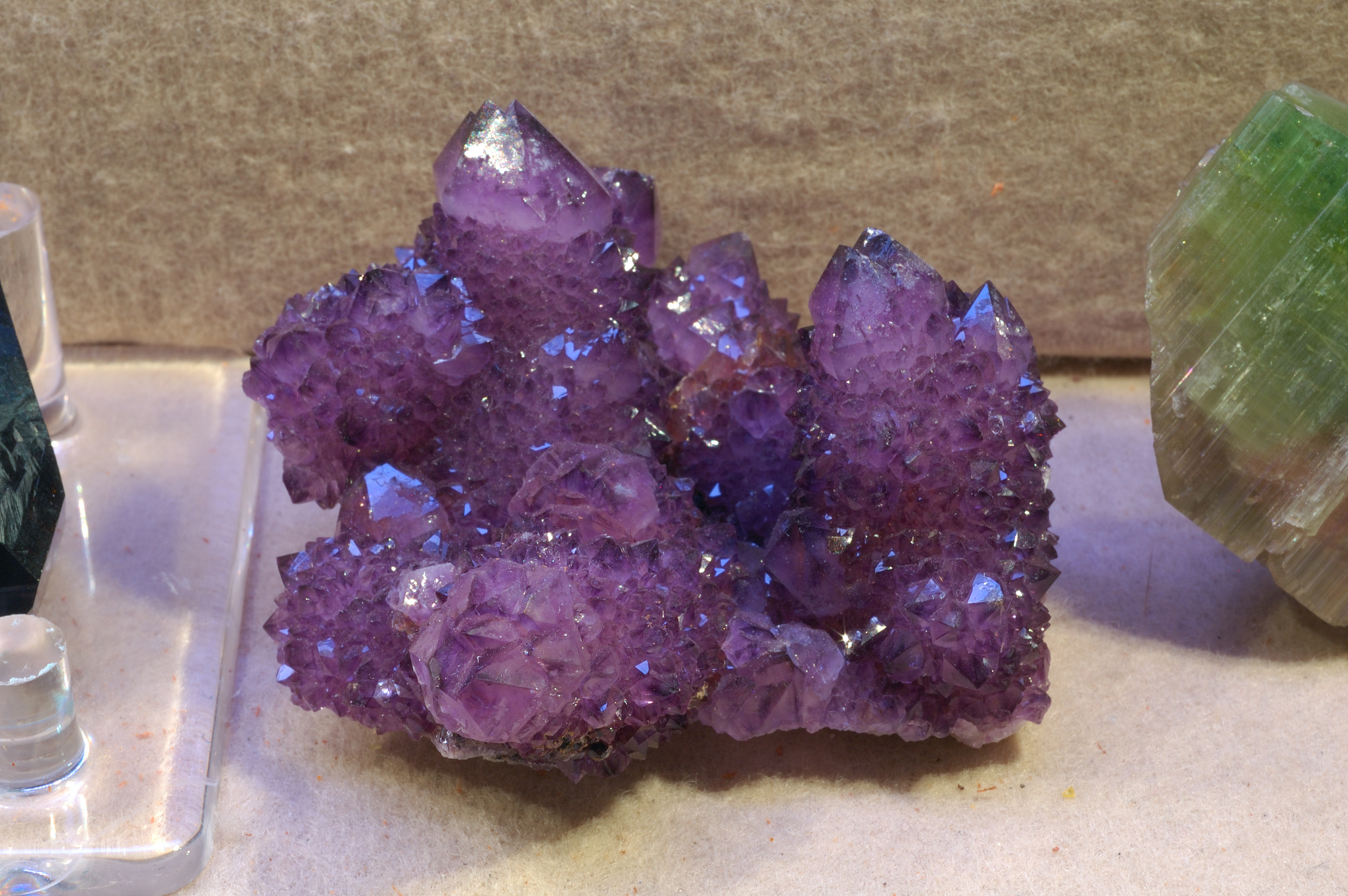 Quartz variety Amethyst from South Africa